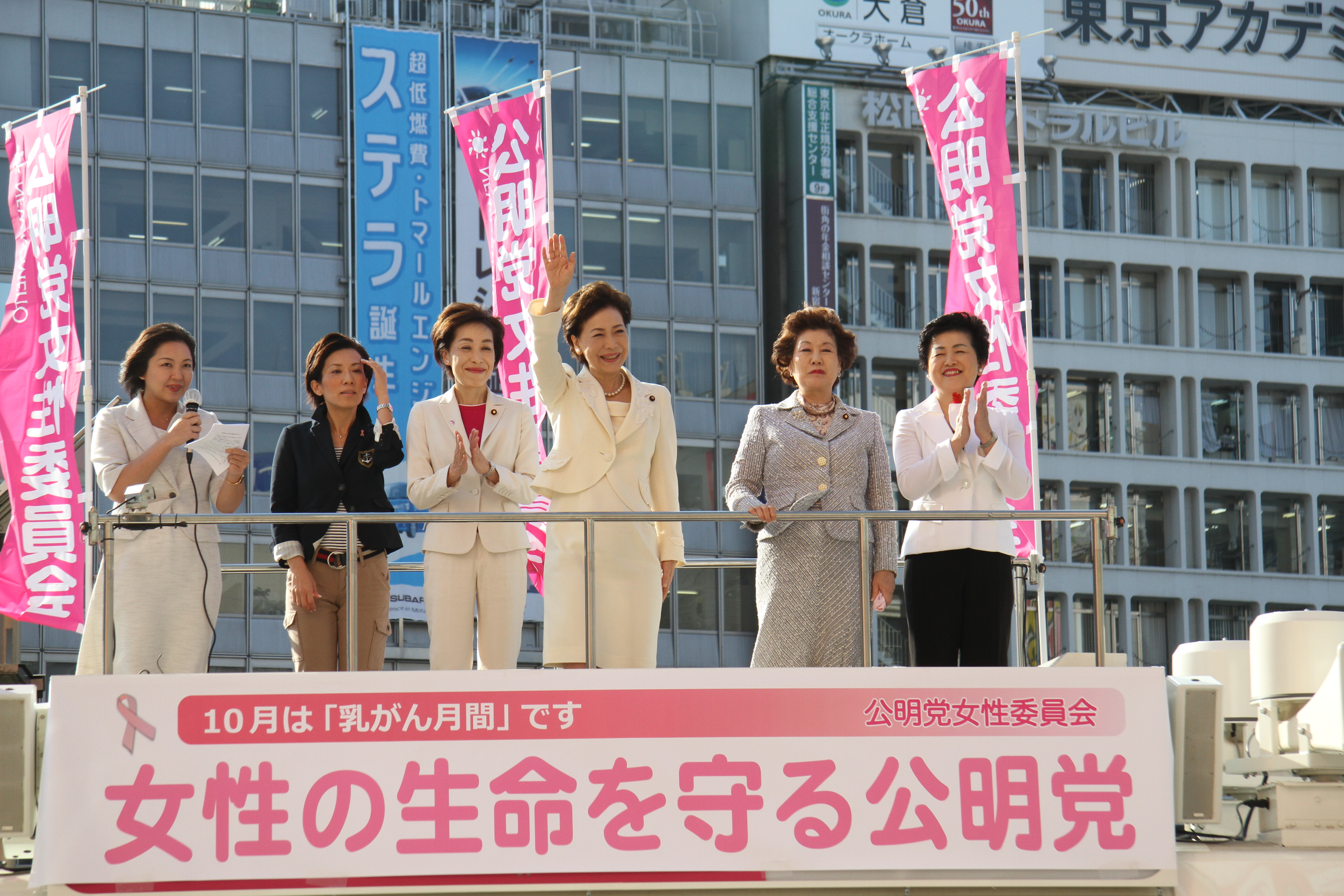 Akira Matsu (hand raised) stands along side of other candidates and incumbents to the New Komeito party. They are standing on a campaign van in front of Shinjuku Station.